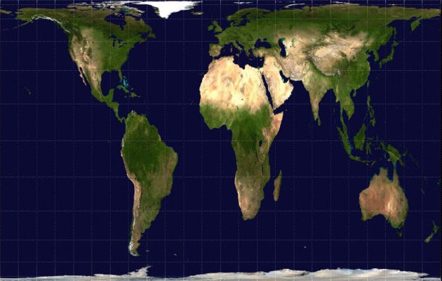 A Gall-Peters projection of a Visible Earth image collected by the Earth Observatory experiment of the U.S. Government's NASA space agency. The reticle is 15 degrees in latitude and longitude.